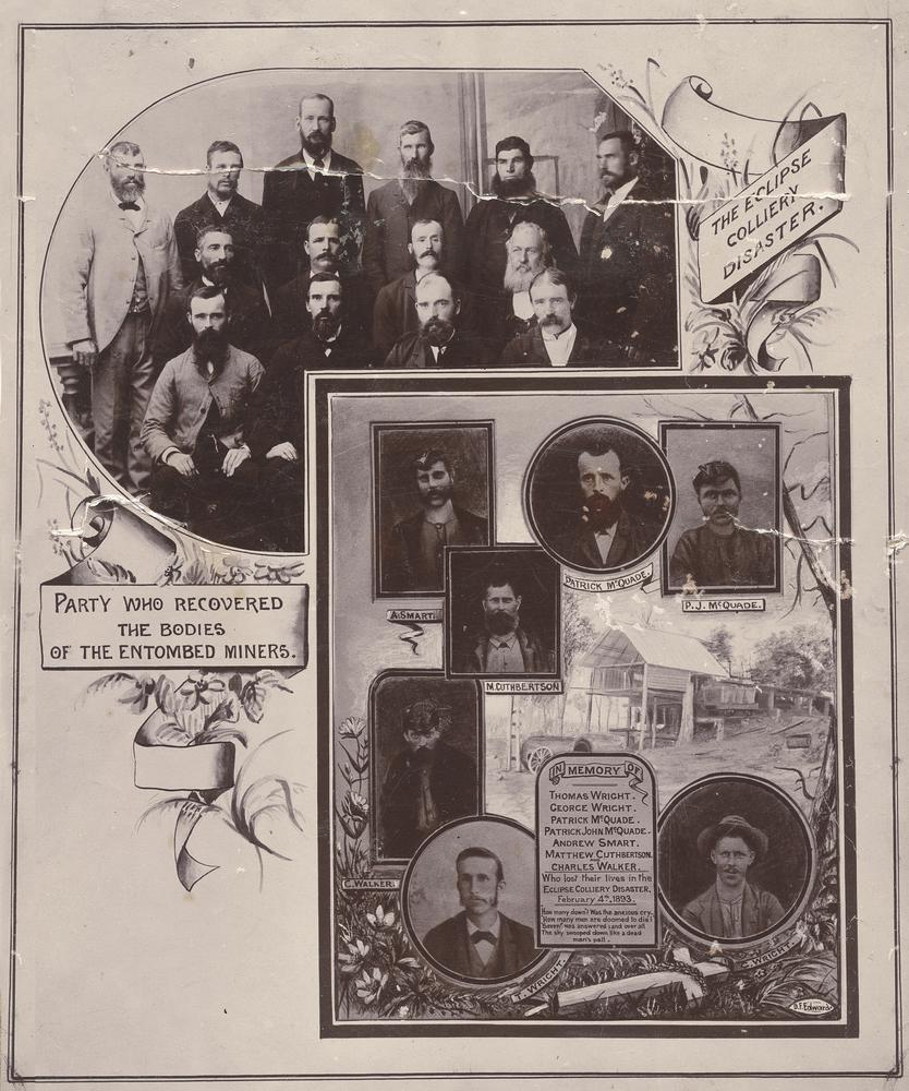 Memorial photograph from the Eclipse Colliery Disaster, Ipswich, 1893 In the Ipswich floods of 1893, water entered the Eclipse Colliery at Tivoli and seven miners were drowned, including Thomas and George Wright, sons of the owner. After the floods subsided, volunteers had to search the mine to recover the bodies as there was no trained rescue service. This memorial photograph shows a group portrait of the rescuers and another collage of portraits of the miners who died. There is a memorial plaque included, which gives the name of the miners and the date they died.